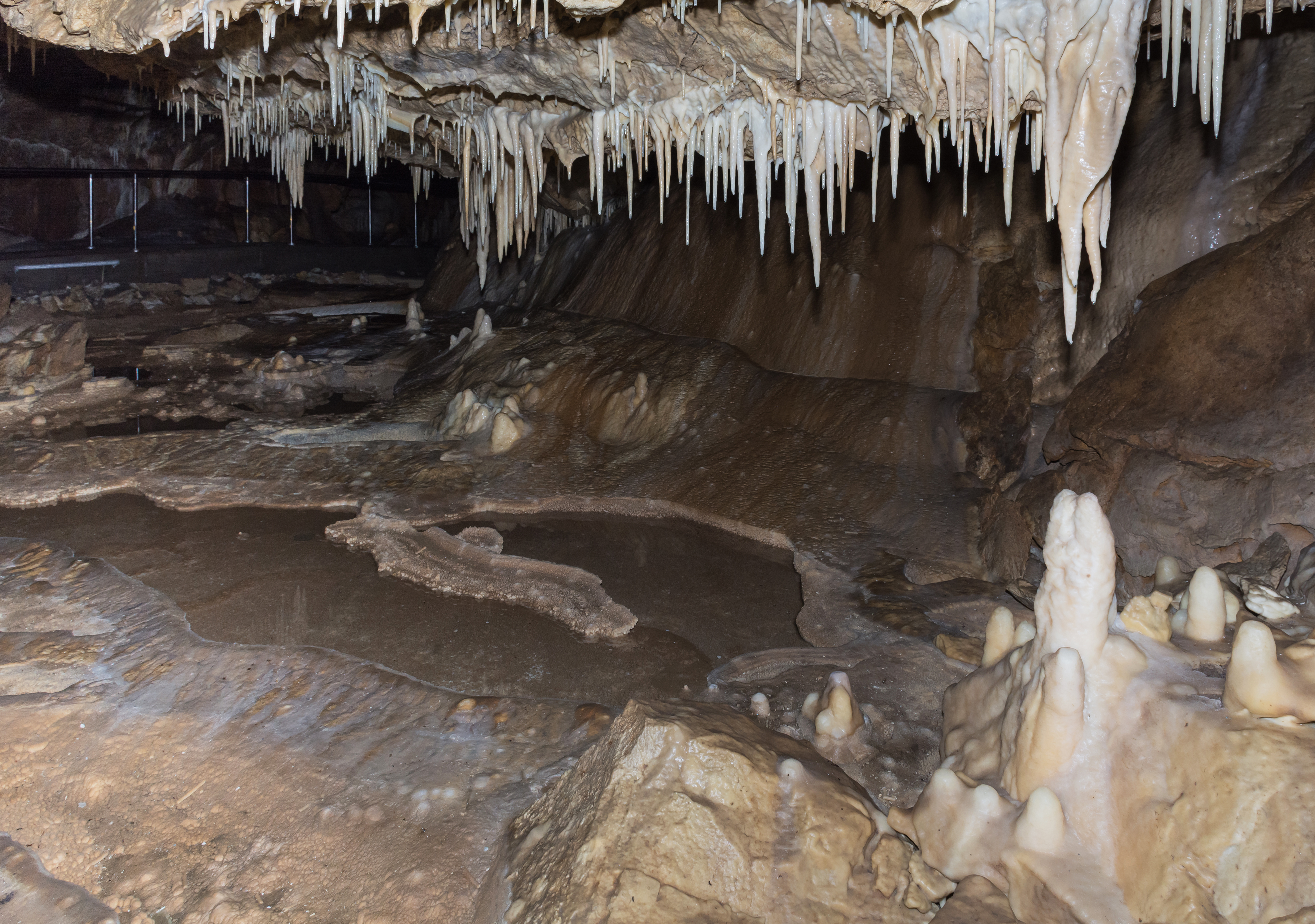 Bear Cave in Kletno (Lower Silesia, Poland), speleothems This is a photography of Natura 2000 protected area with ID PLH020016